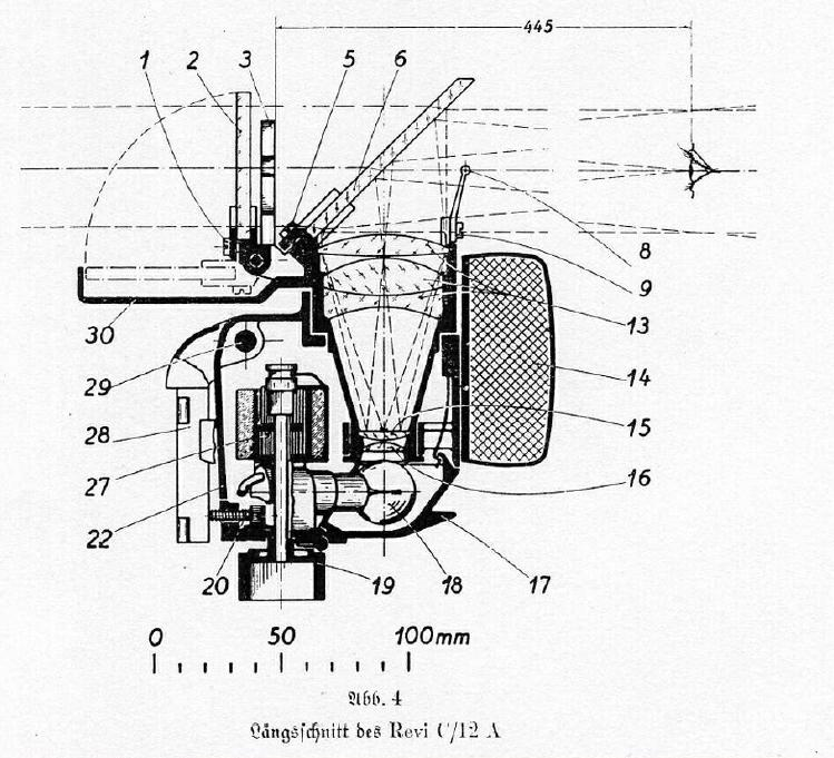 A longitudinal section of a World War II German C/12A Revi (reflexvisier) reflector gun - sight, a non-magnifying optical sight that allows pilot to look through a partially reflecting glass element and see a cross hair reticle superimposed on the field of view.